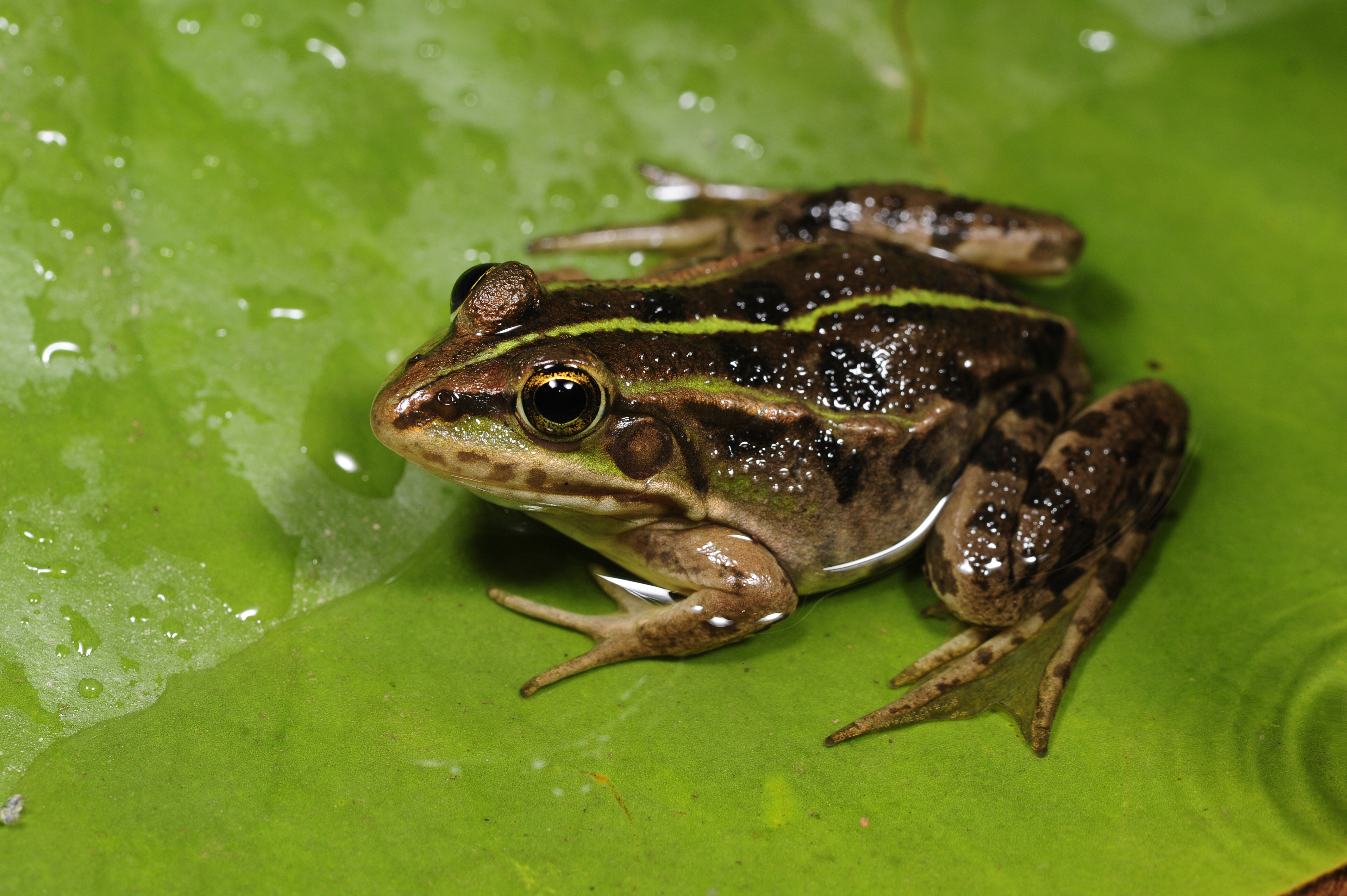 Albanian water frog (Pelophylax shquipericus) from Montenegro